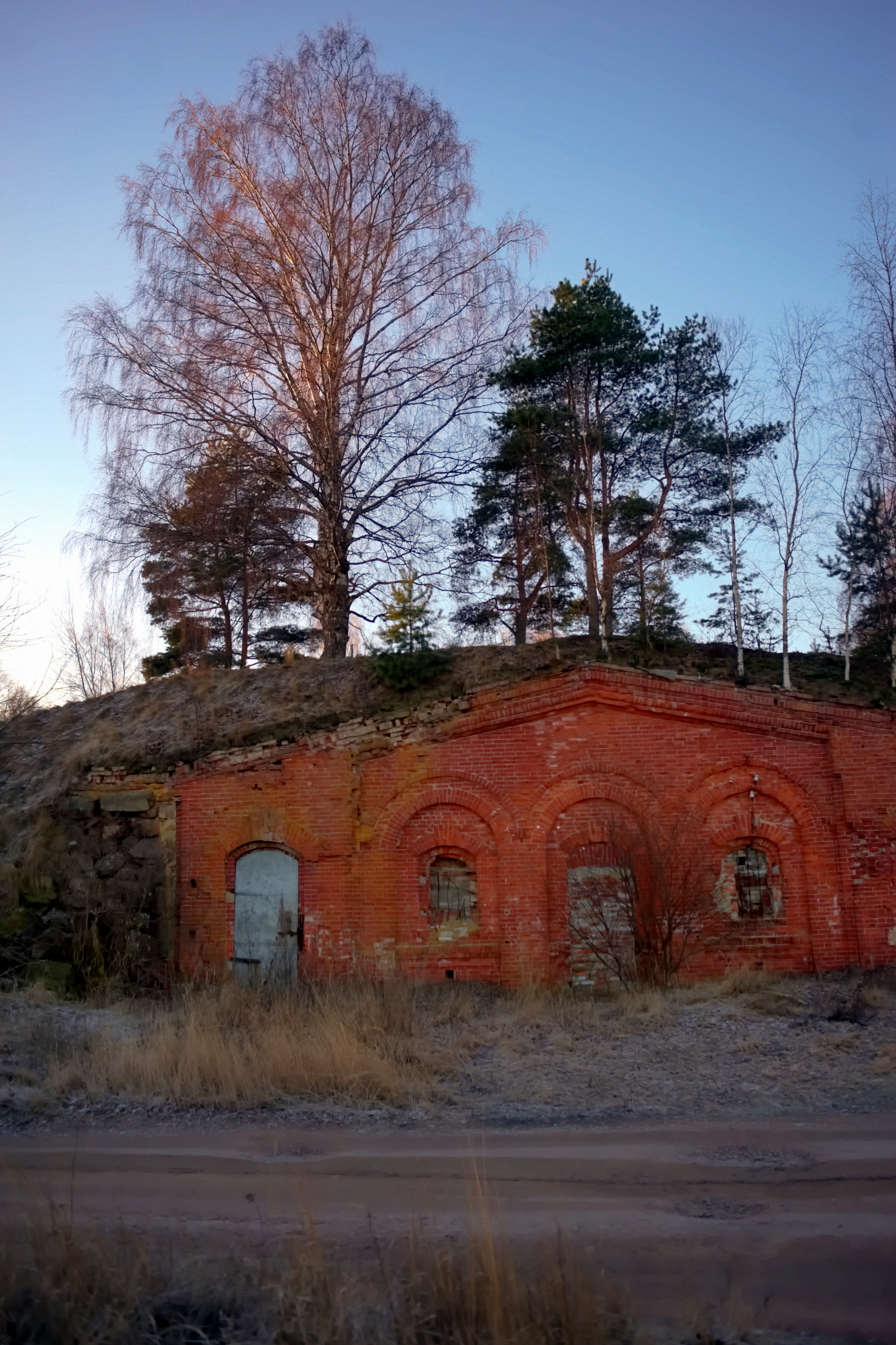 Uuras, building